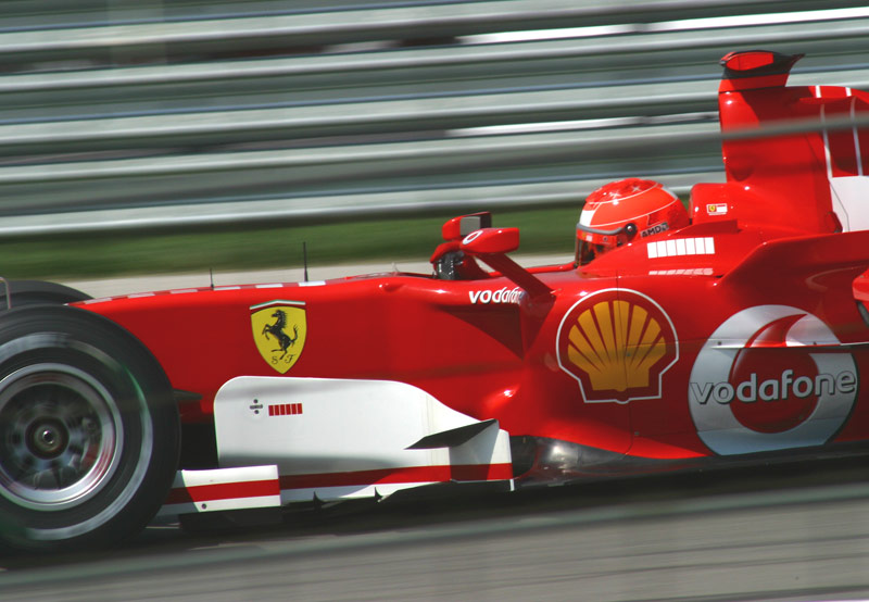 Michael Schumacher driving for Ferrari at the 2006 United States Grand Prix.